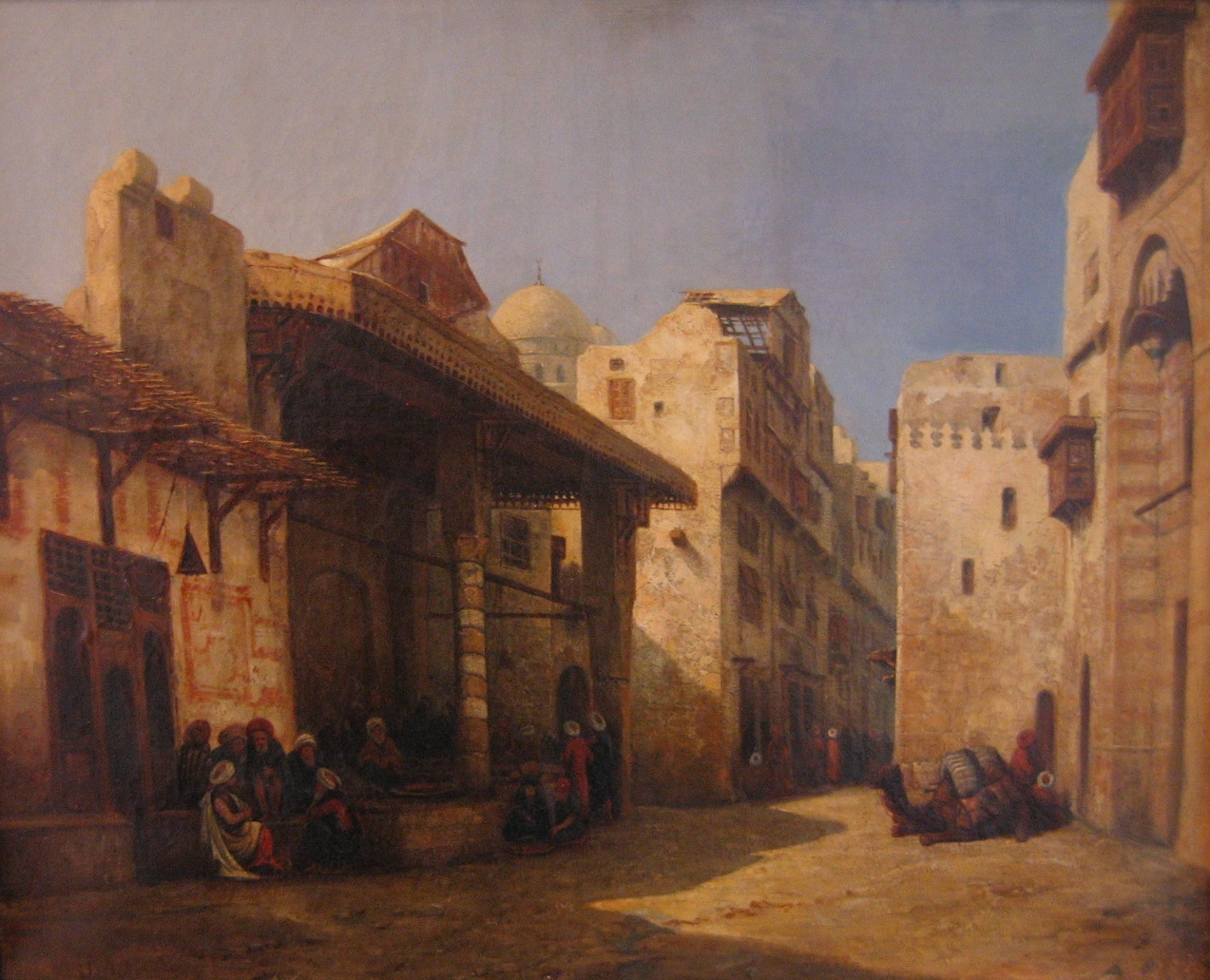 Street of Cairo